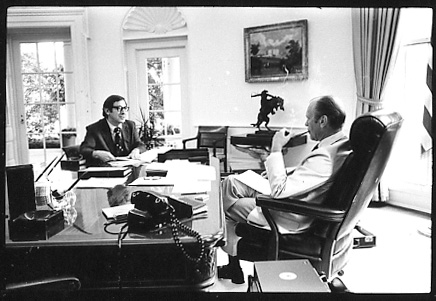 Special Consultant Robert Goldwin meeting with President Gerald Ford. National Archives catalog information: A5430 07/09/1975 Oval Office GRF, Goldwin Meeting with Special Consultant